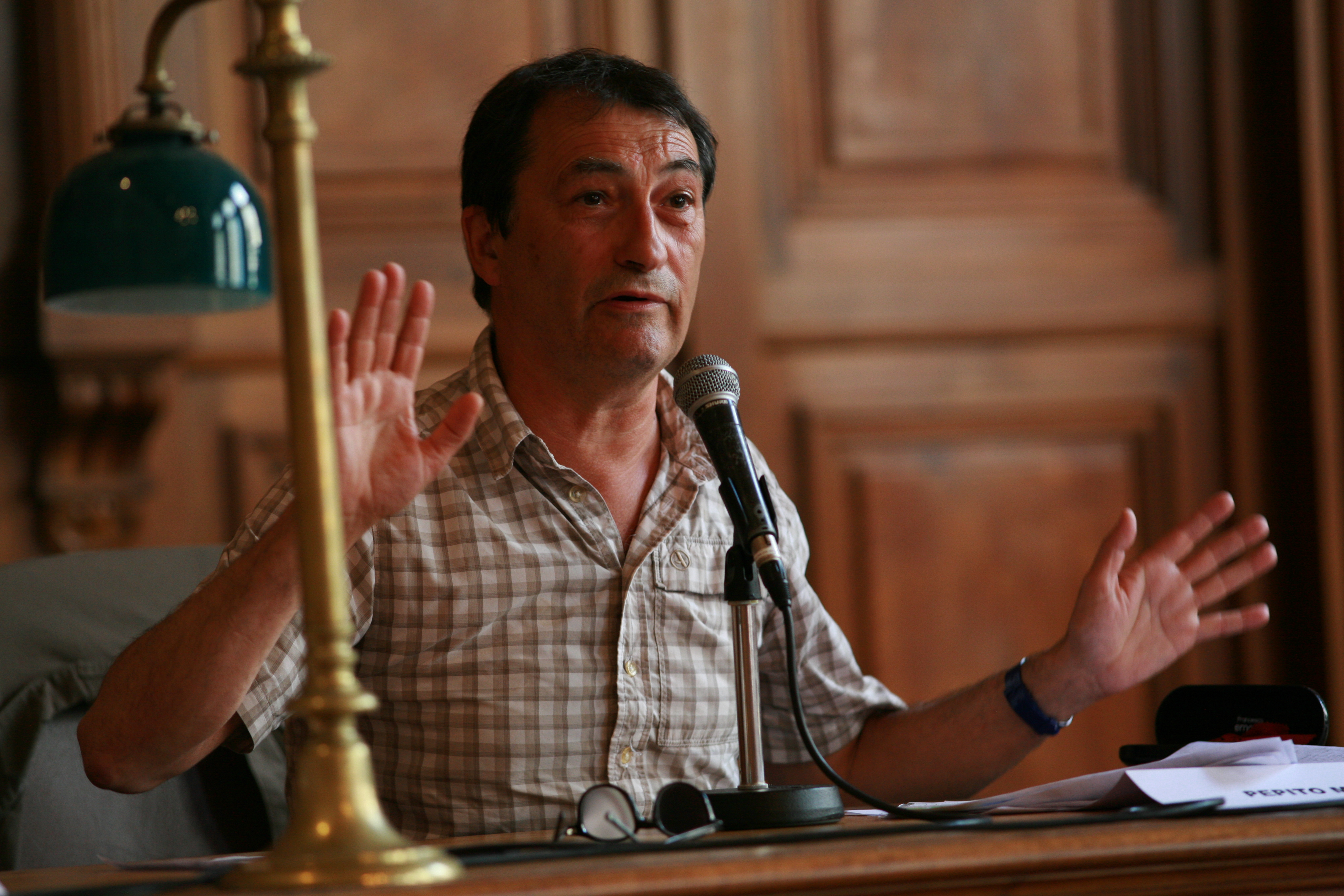 The French storyteller Pépito Matéo